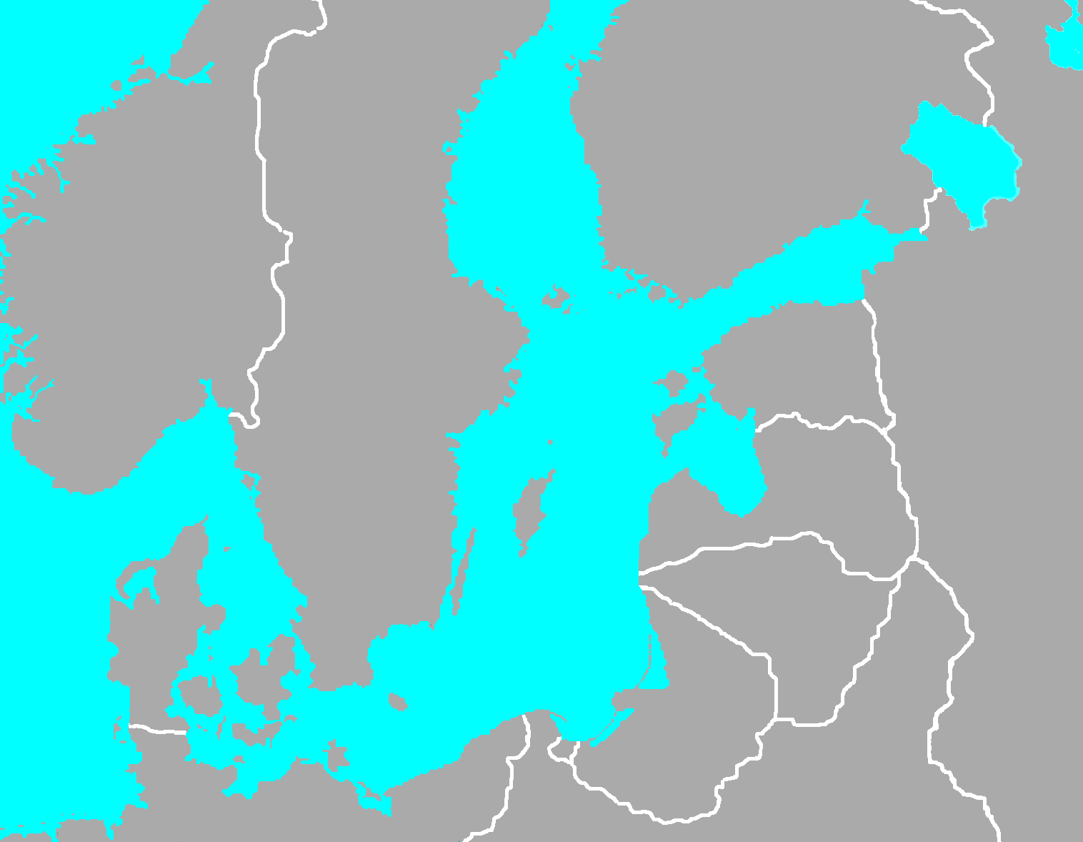 Map of the Baltic Sea in September 1939.